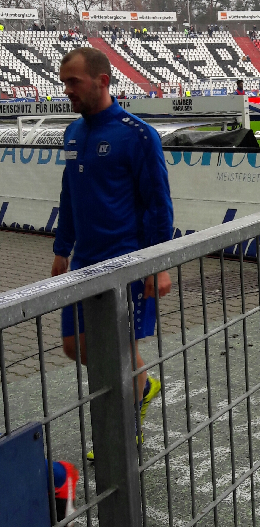 Footballplayer Erwin Hoffer before the match KSC - Eintracht Braunschweig at December, the 17th 2016